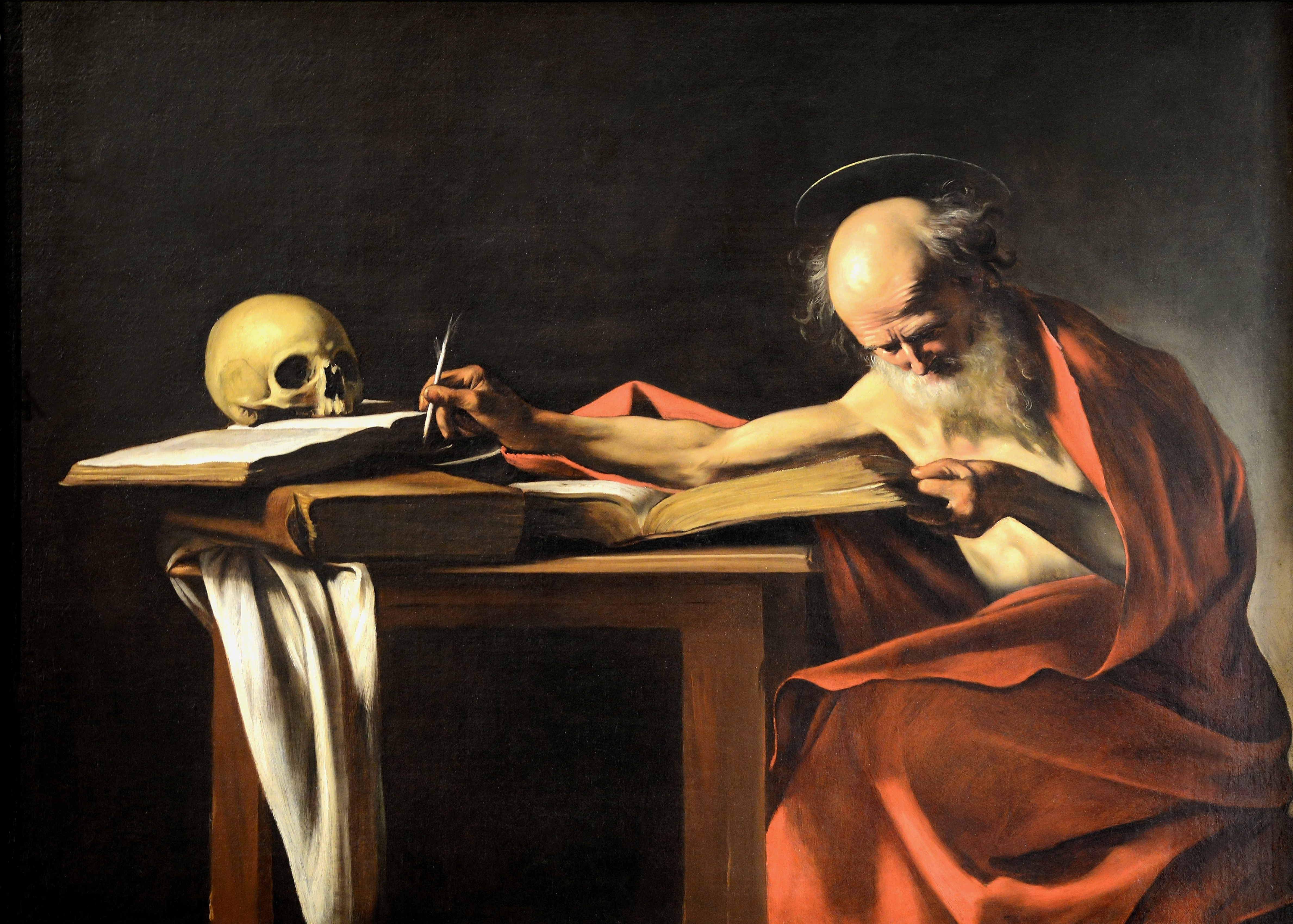 St Jerome by Caravaggio. Galleria Borghese, Roma